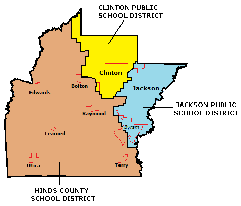 Map of the public school districts in Hinds County, Mississippi; created with the GIMP. Made by User:Acntx.